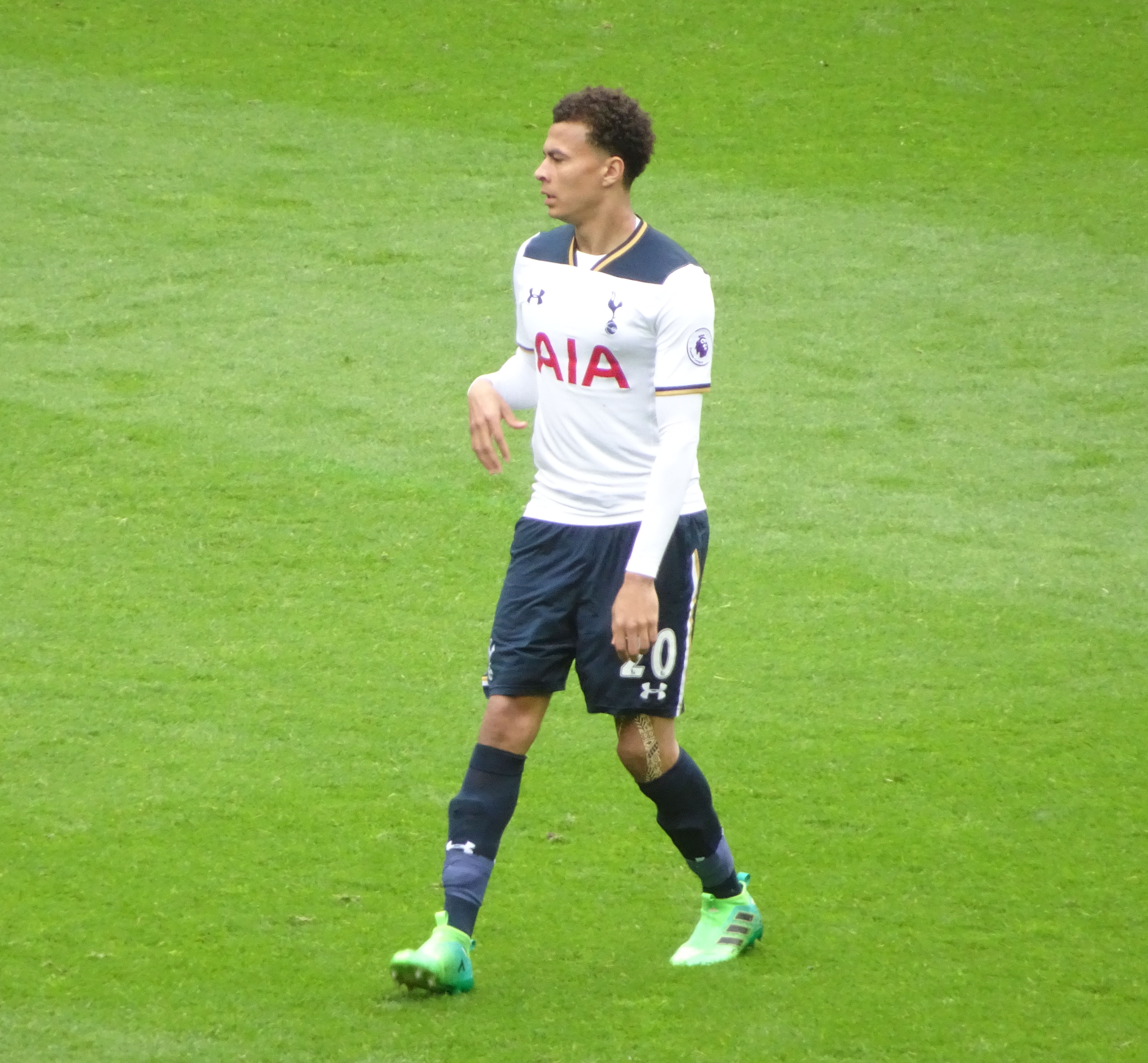 Dele Alli playing for Spurs in 2017